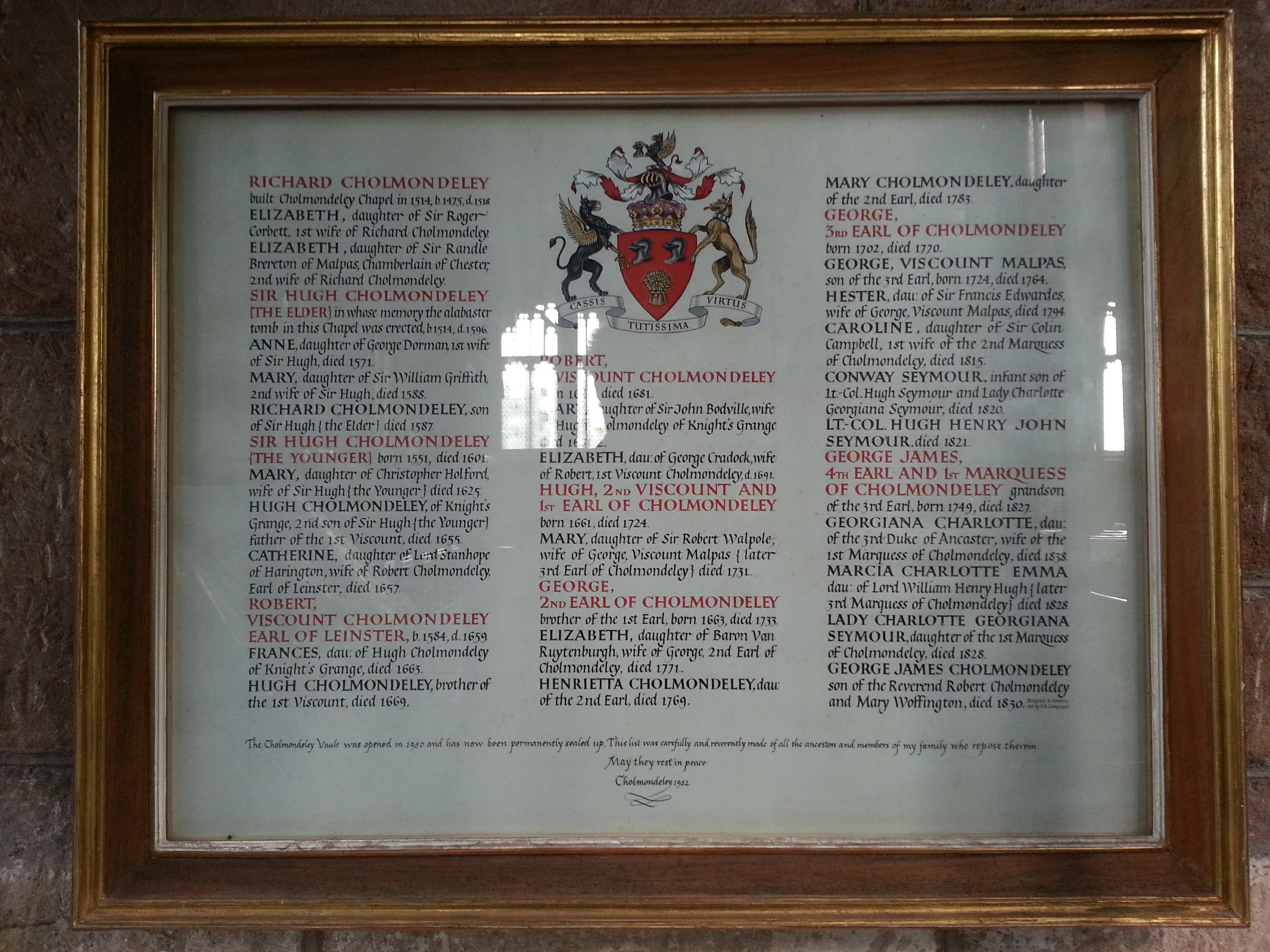 Cholmondeley family interred in St Oswald's Church Vault, Malpas,as displayed in the church, and including: Richard Cholmondeley (1475-1518) Sir Hugh Cholmondeley (The Elder) (1514-1596) Sir Hugh Cholmondeley (The Younger) (1551-1601) Robert Viscount Cholmondeley Earl of Leinster (1584-1659) Robert Viscount Cholmondeley (d. 1681) Hugh, 2nd Viscount and 1st Earl of Cholmondeley (1661-1724) George, 2nd Earl of Cholmondeley (1663-1733) George, 3rd Earl of Cholmondeley (1702-1770) George, 4th Earl and 1st Marquess of Cholmondeley (1749-1827)